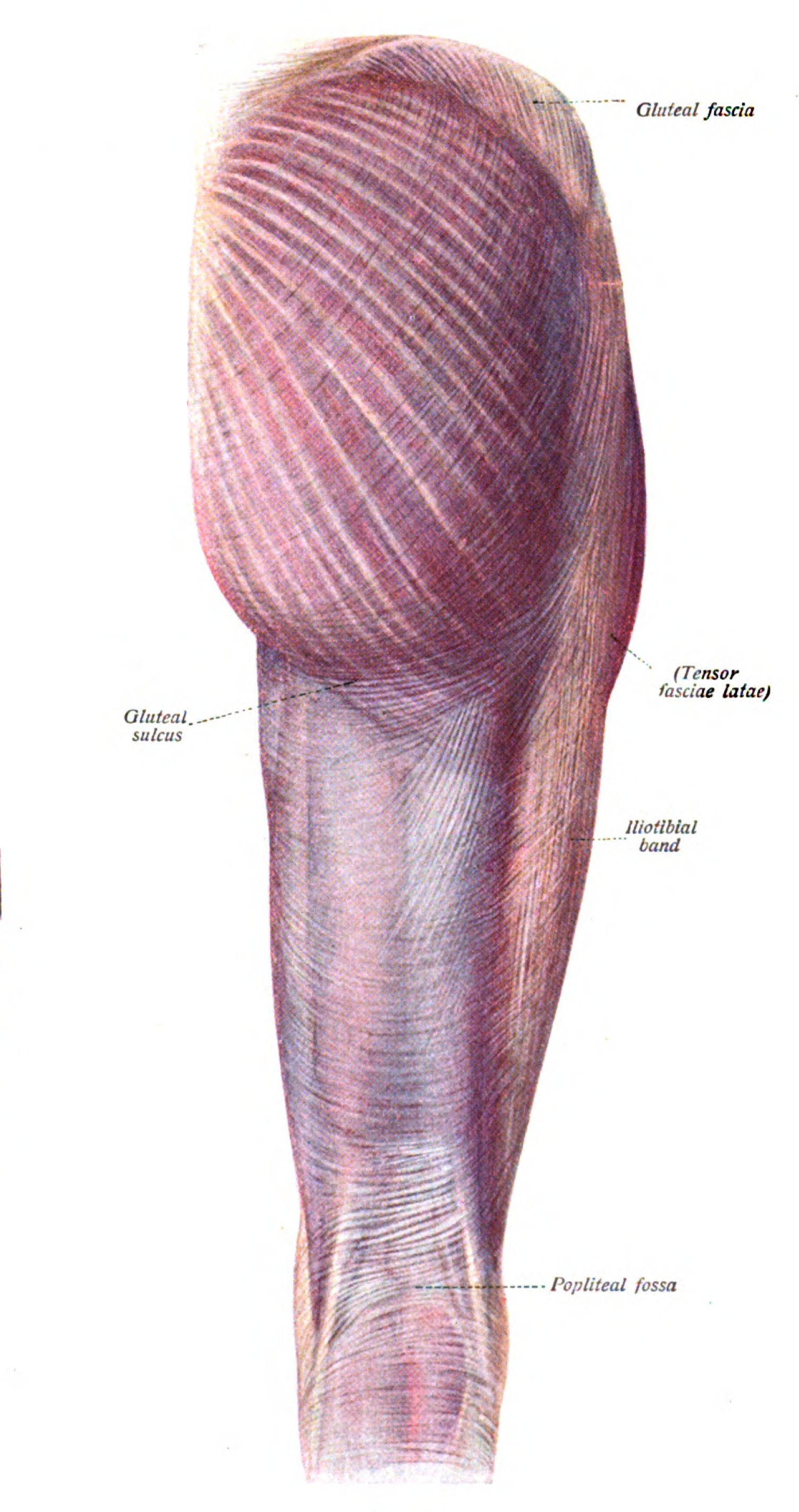 An anatomical illustration from the 1909 edition of Sobotta's Atlas and Text-book of Human Anatomy with English terminology.